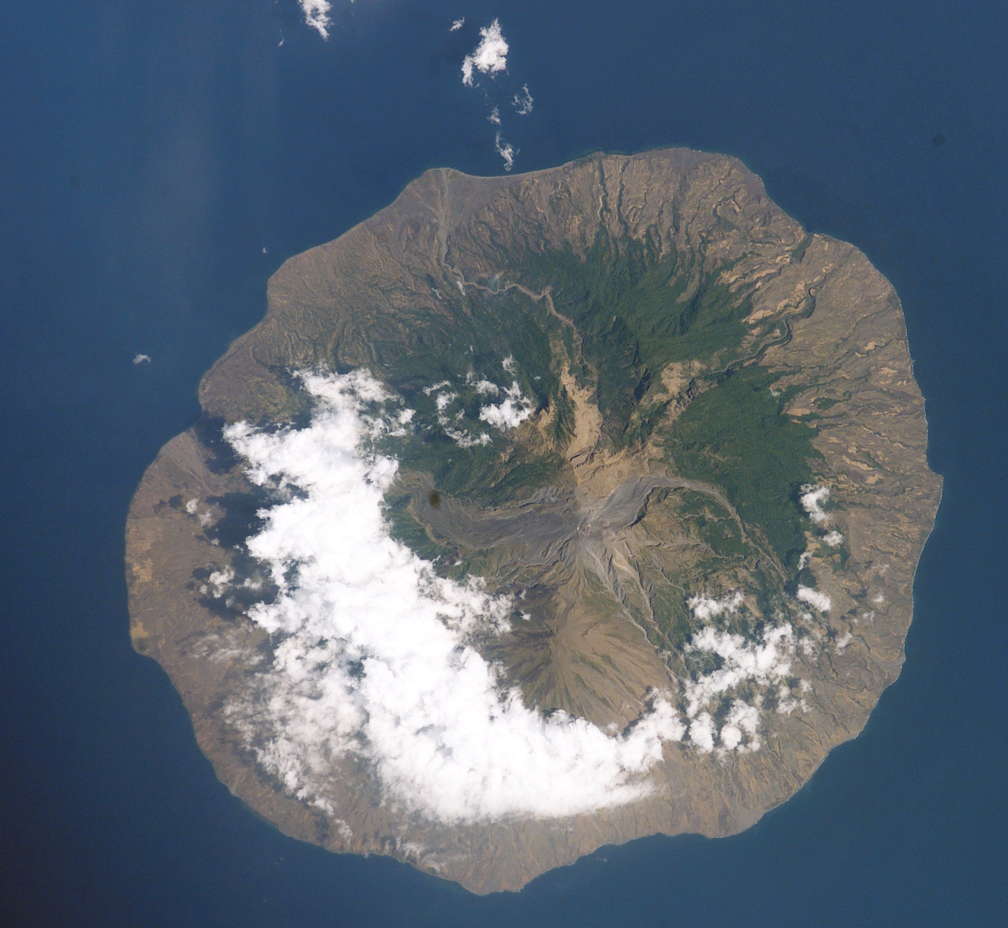 Sangeang Api Island, Indonesia In 1985, the small Indonesian island of Sangeang Api (for scale, the island is 13 km wide) off the northeast coast of Sumbawa began to erupt. Within a month, the 1250 inhabitants had evacuated to Sumbawa. The eruption lasted until 1988. The lava and pyroclastic flows—the wide channel running west from the summit—are still easily traced on this image taken last week by Space Shuttle astronauts (STS-112) . Today, the island's summit crater (1949 m) produces intermittent steam clouds.